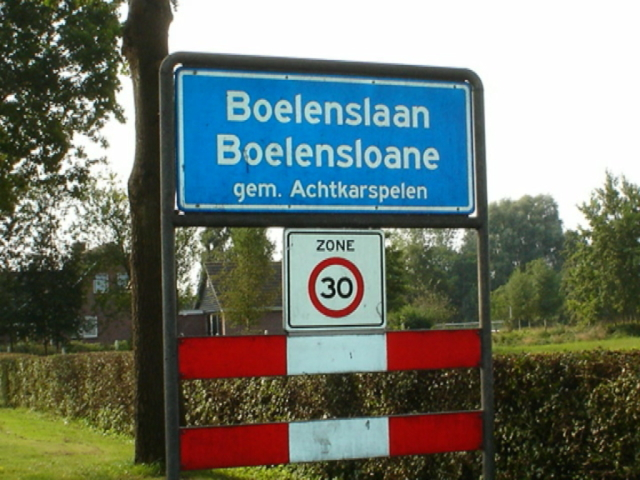 Boelenslaan, Netherlands